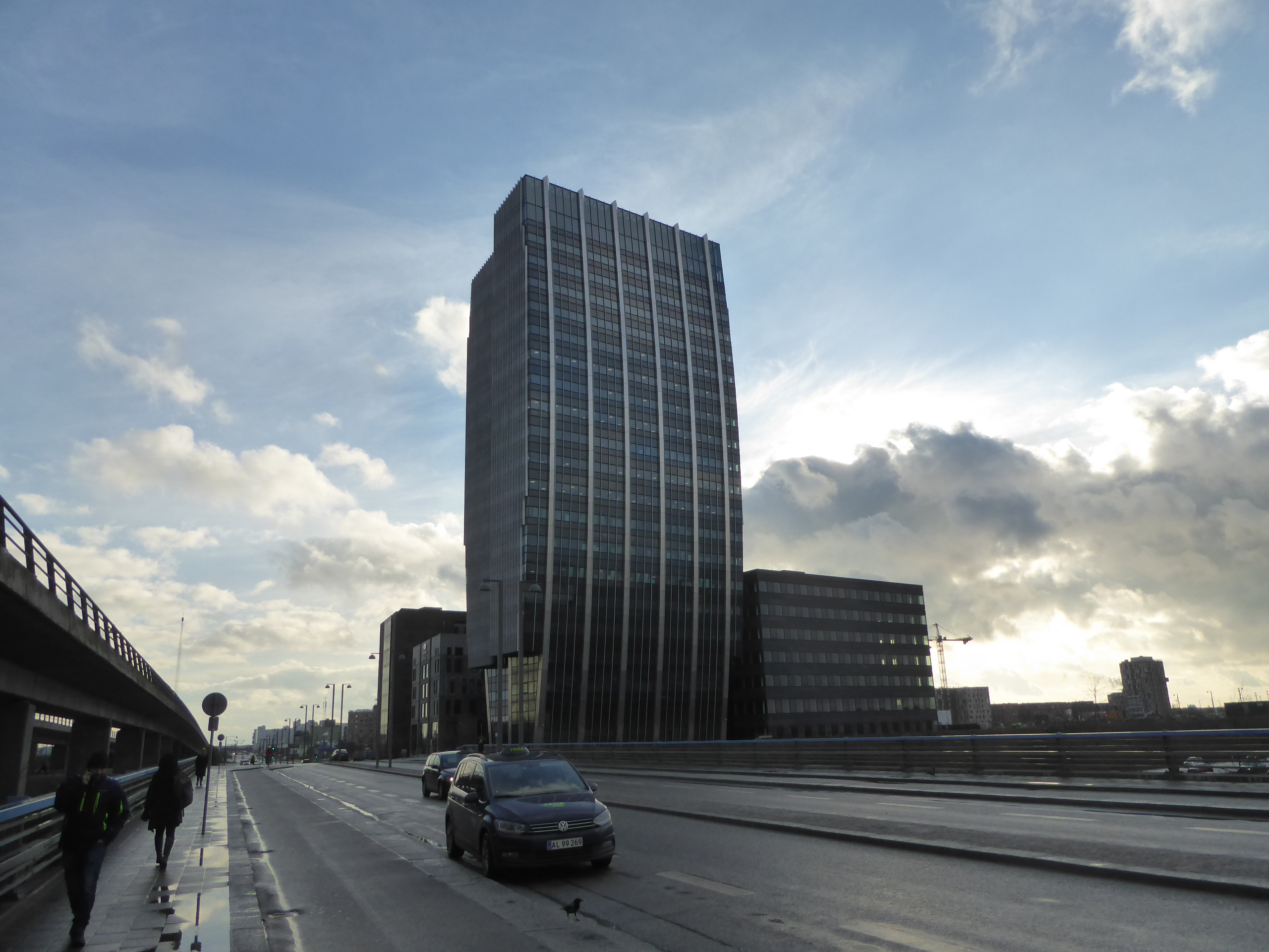 The hotel Crowne Plaza Copenhagen Towers at Ørestads Boulevard in Ørestad in Copenhagen.